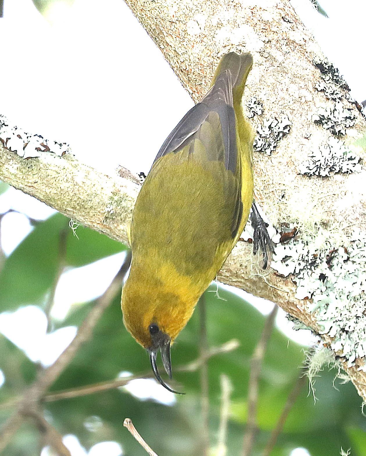 The AKIAPOLA'AU Hemignathus munroi, is one of the rarest of the endemic birds on the Big Island of Hawai’i. It is found only on this island, and only above 3,500 ft in the rain forest. Most of this area is inaccessible due to rugged terrain and/or protected refuges. This photo series was from the Hakalau Forest National Wildlife Refuge. The Akiapola’au is a honeycreeper, but with a unique bill, making it feed more like a woodpecker. With bill wide open, it pecks with the lower mandible to open holes for sap and to find larvae. One the latter is found, it can hook the prey out with the very long and curved upper mandible. The species is endangered, with only about 800 birds left (down from about 1,200 in 1995). It has succumbed not only to the direct pressures of man, through grazing and timber cutting, but through secondary threats introduced by man. Introduced rats and mongooses have had an effect. The greatest dangers, however are more subtle; mosquitoes and tree fungus. No endemic forest birds exist anymore below about 3,500 ft due to mosquitoes introduced in the mid-1800’s by trading ships. The Akiapola’au, and other endemic birds, has no resistance to the avian diseases carried by these pests. So far the mosquitoes are confined to the lower elevations, but as they evolve, they will likely fill the higher altitudes also, and spell the end of the few remaining endemic species. Compounding all of this, the nature of the species is not helping in its own cause: •It lays only one egg per year, or every other year, placed on the top of a branch. •It is for the most part dependent on one tree, the Koa Acacia koa from which it extracts the larvae of one beetle. •All of the native trees in this forest ecosystem are at great danger of dying of a rapidly-spreading fungus. (Before entering the preserve, one must wash the soles of all shoes with alcohol to try to slow the progress).